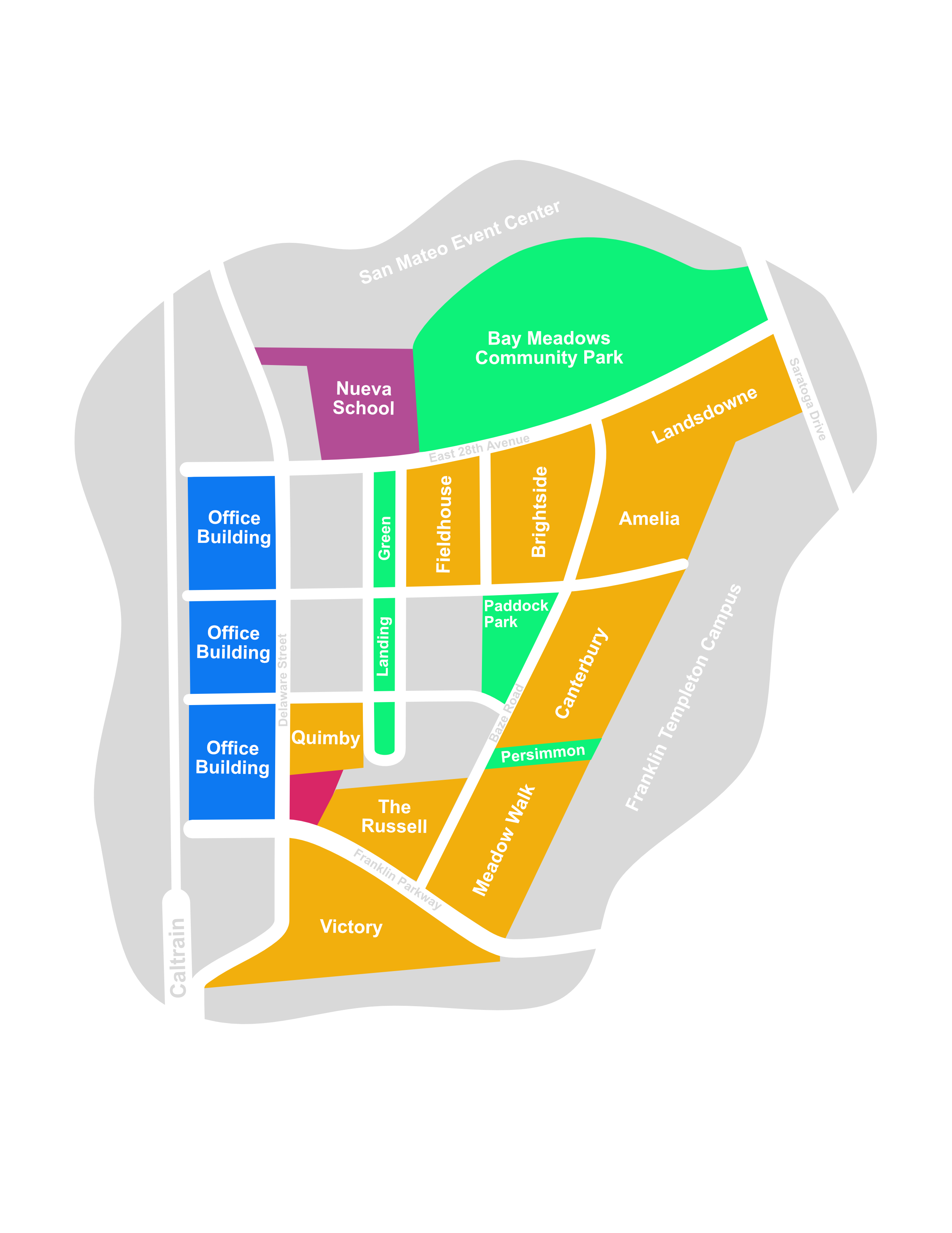 Primary features of Bay Meadows II neighborhood